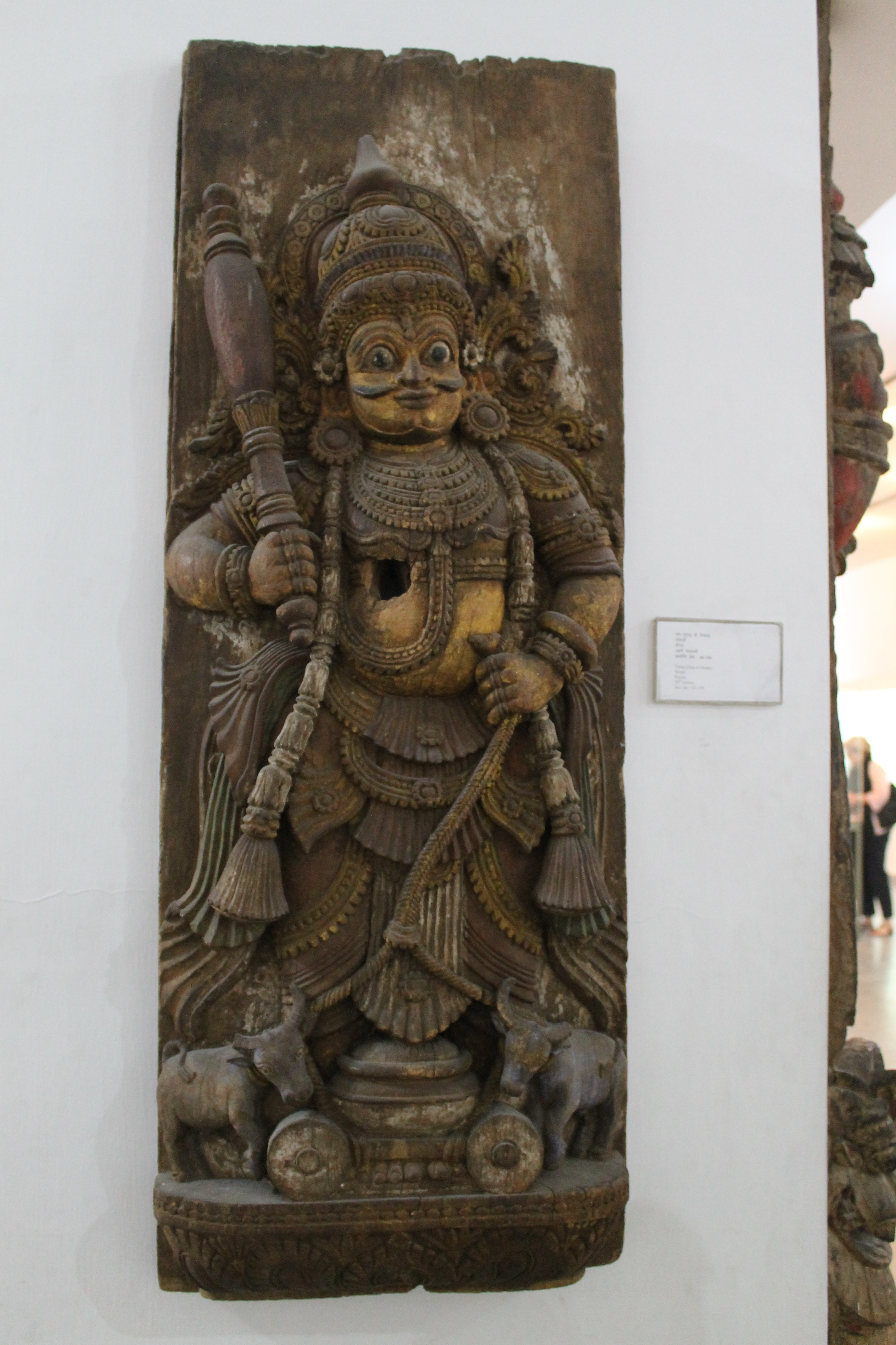 Yama, the god of death in Hindu mythology. An exhibit at the National Museum in New Delhi, India.